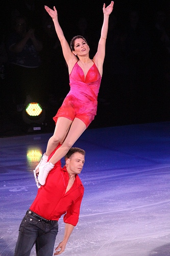 Stars on Ice in Halifax 2010.